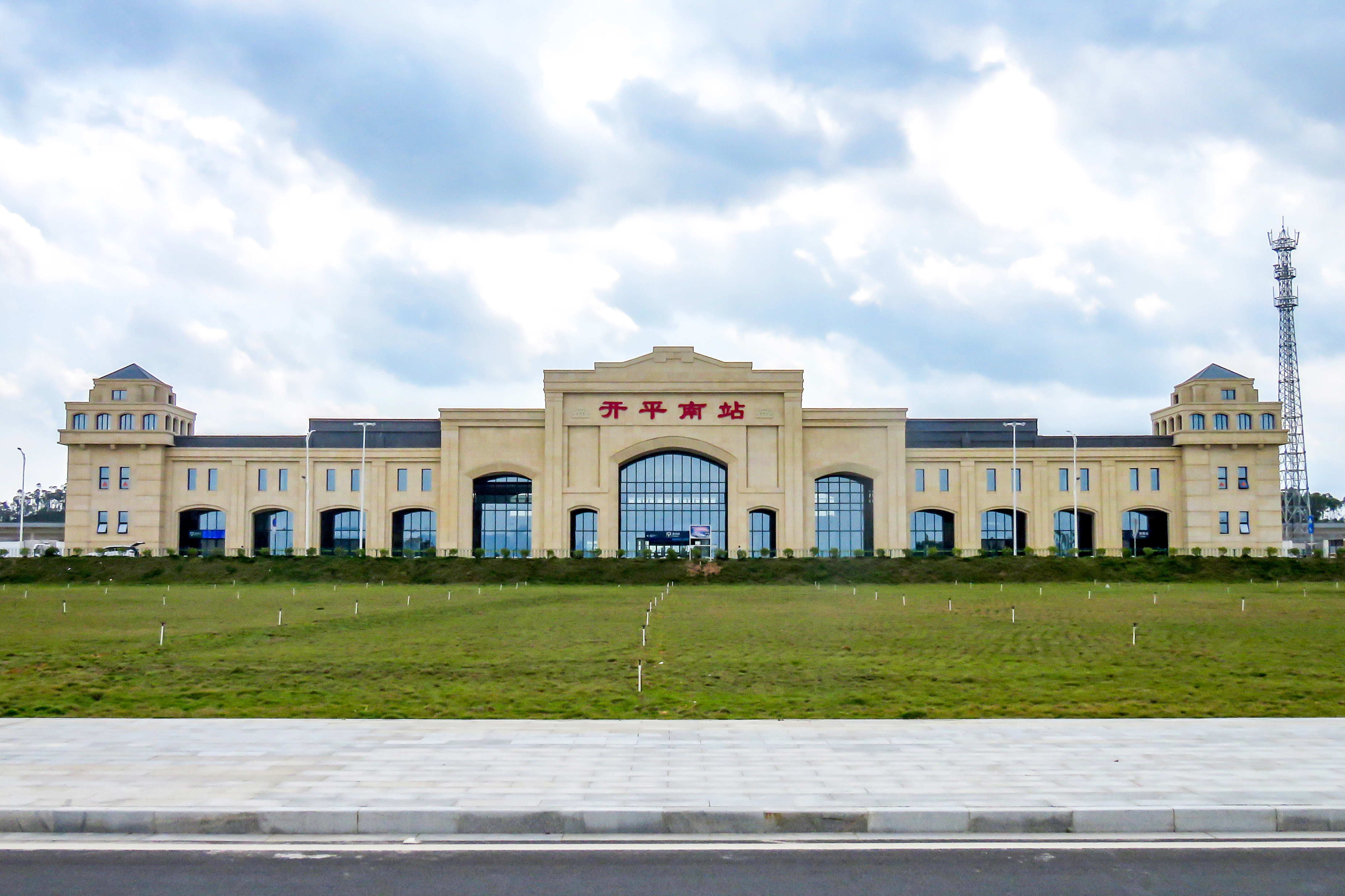 Inspired by the watchtowers.